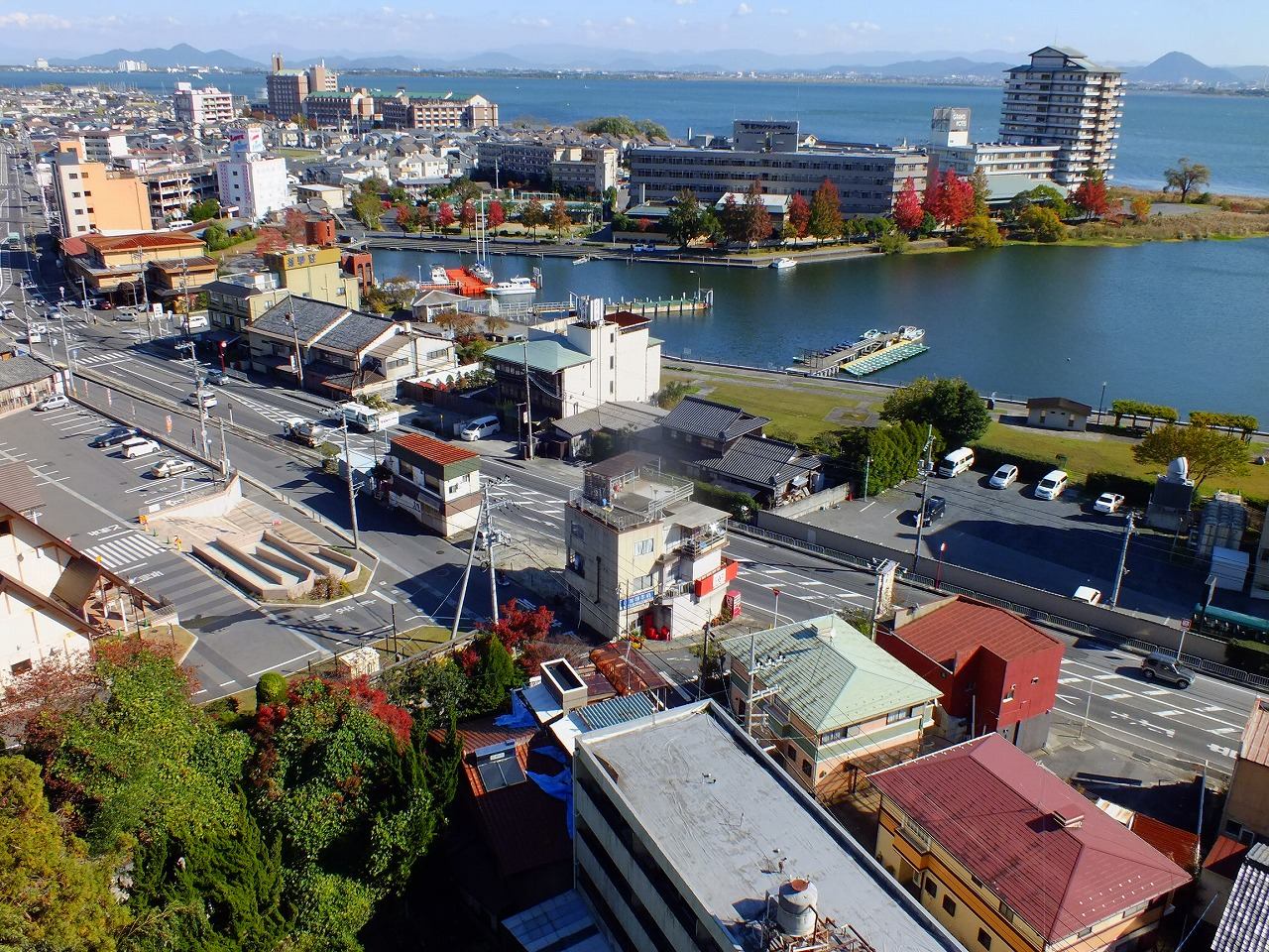 Yumotokan-Ogoto onsen Lake Biwa view 湯元舘より琵琶湖を眺望